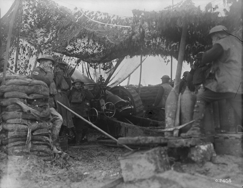 Canadian Siege Artillery Gun: BL 8-inch Mk VIII Howitzer, firing into Lens, January 1918. Canadian Gunners are firing a BL 8-inch Howitzer, which is shown in recoil.